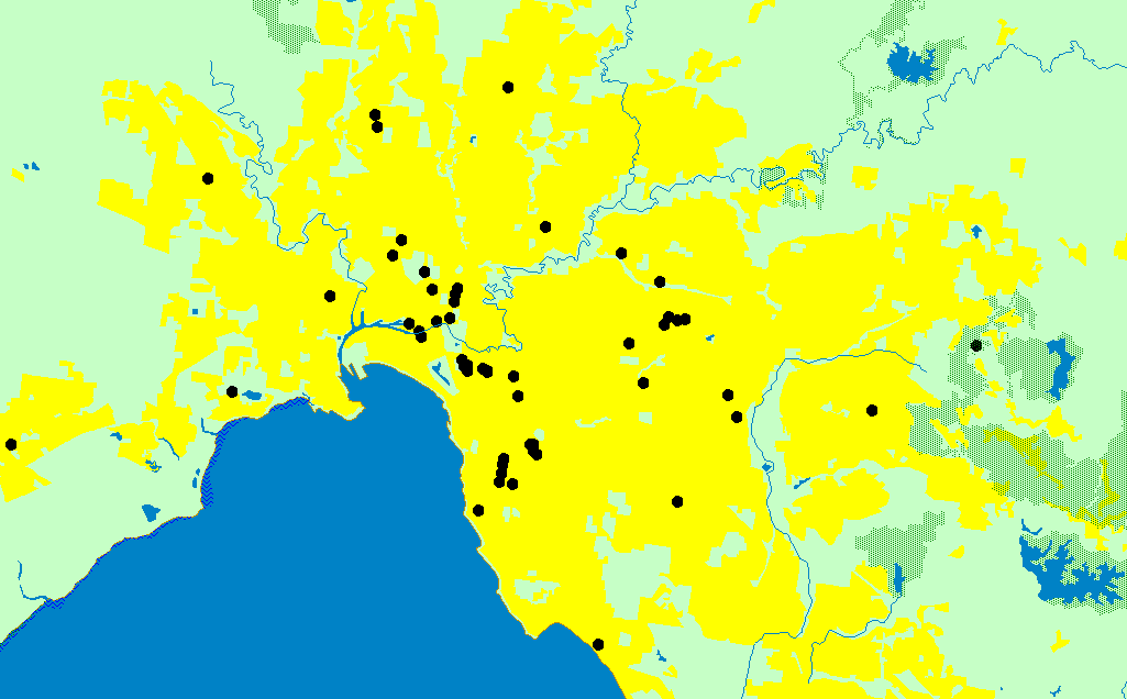 Japan-born residents in Melbourne, 2006 (one dot equals 100 such residents in a collection district)